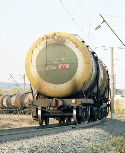 Russian tank cars.